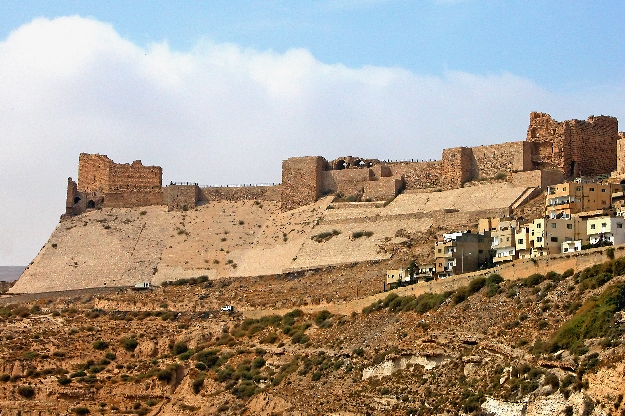 Kerak CastleLietuvių: Karako pilis